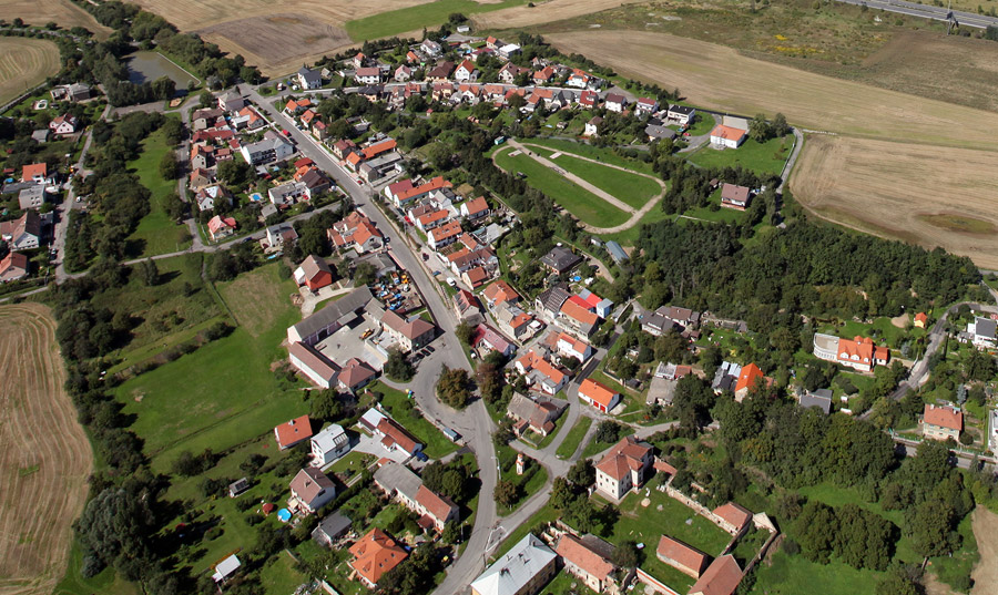 Třebonice, village on the edge of Prague